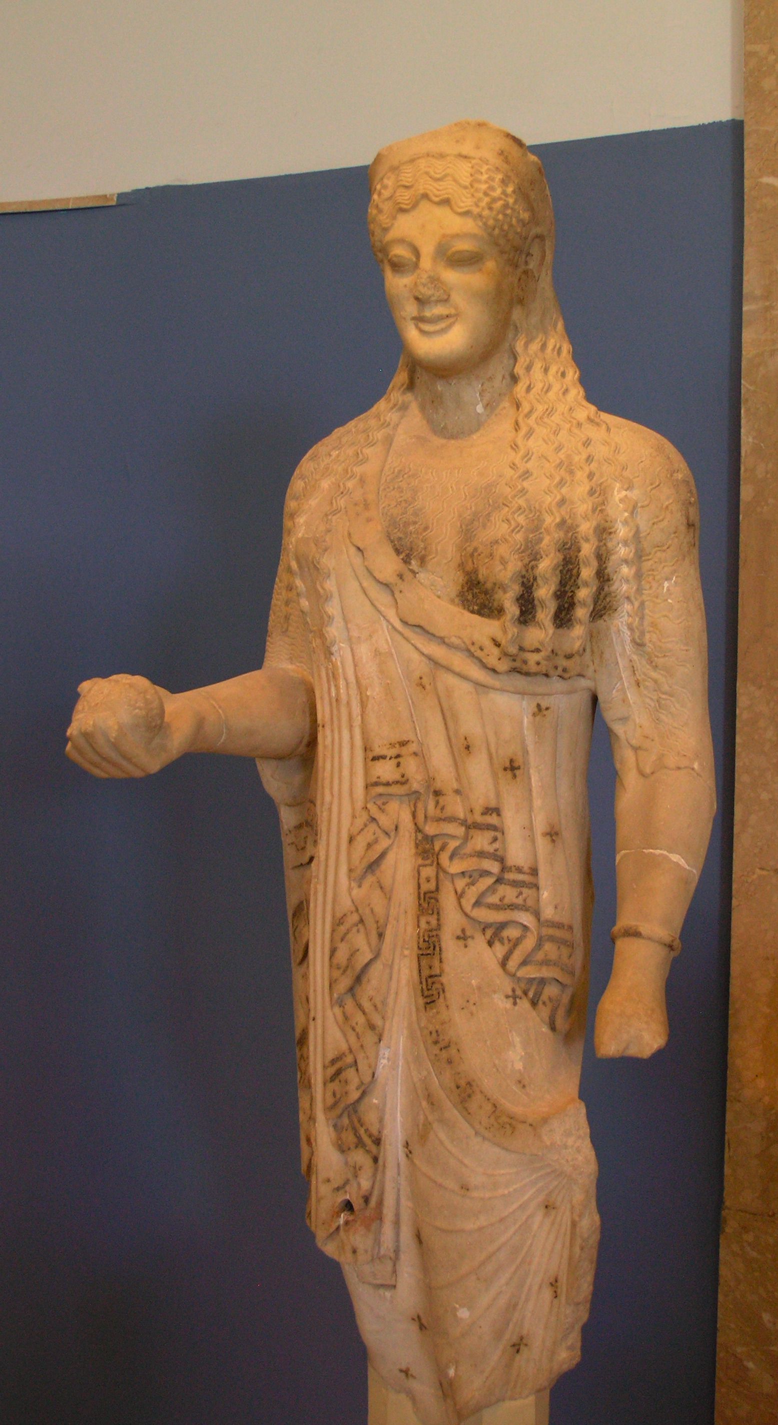 Kore, ca. 530-520 BC, found on the Acropolis